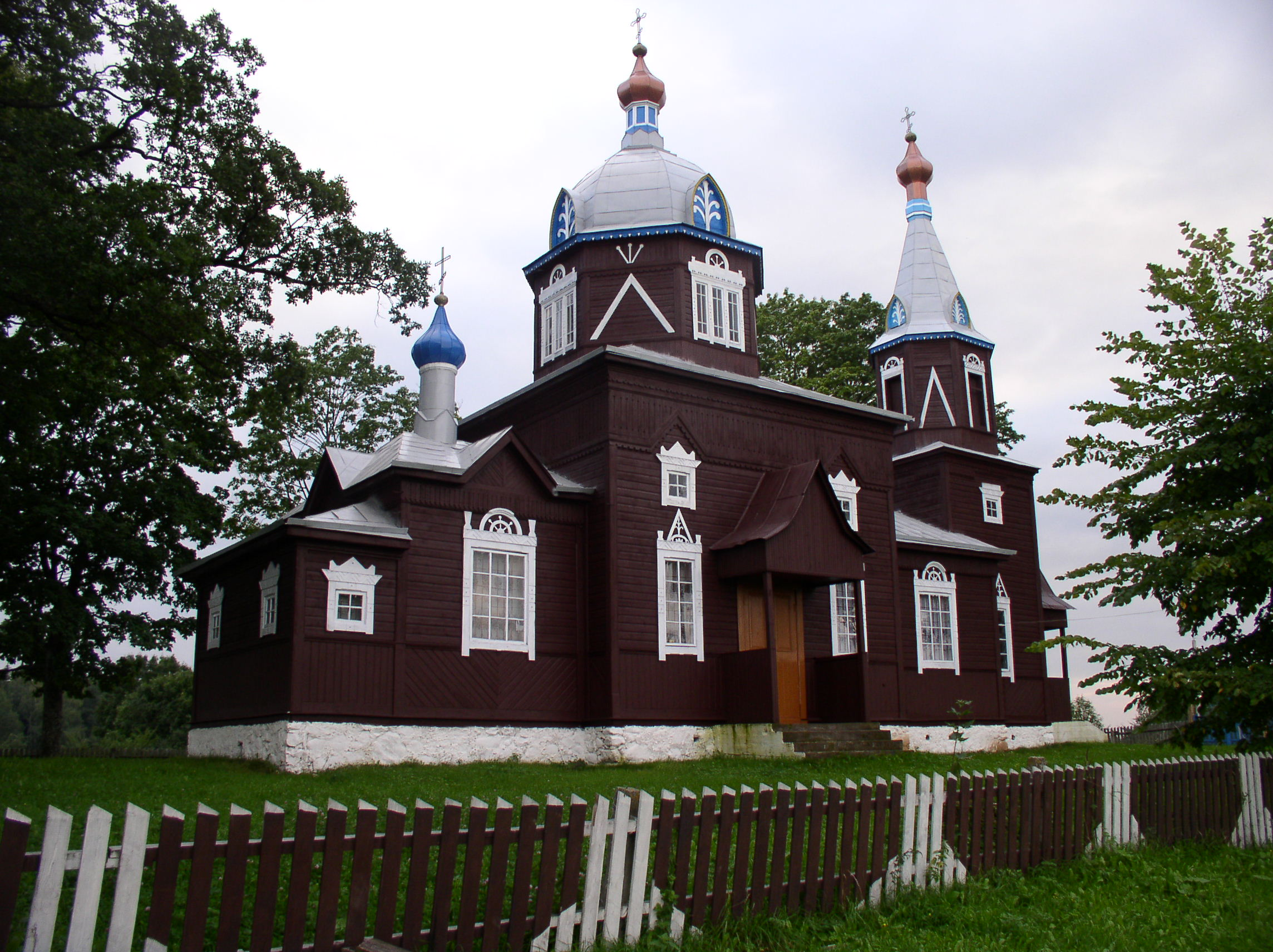 Church of Saint George. Slabodka, Stowbtsy district, Belarus